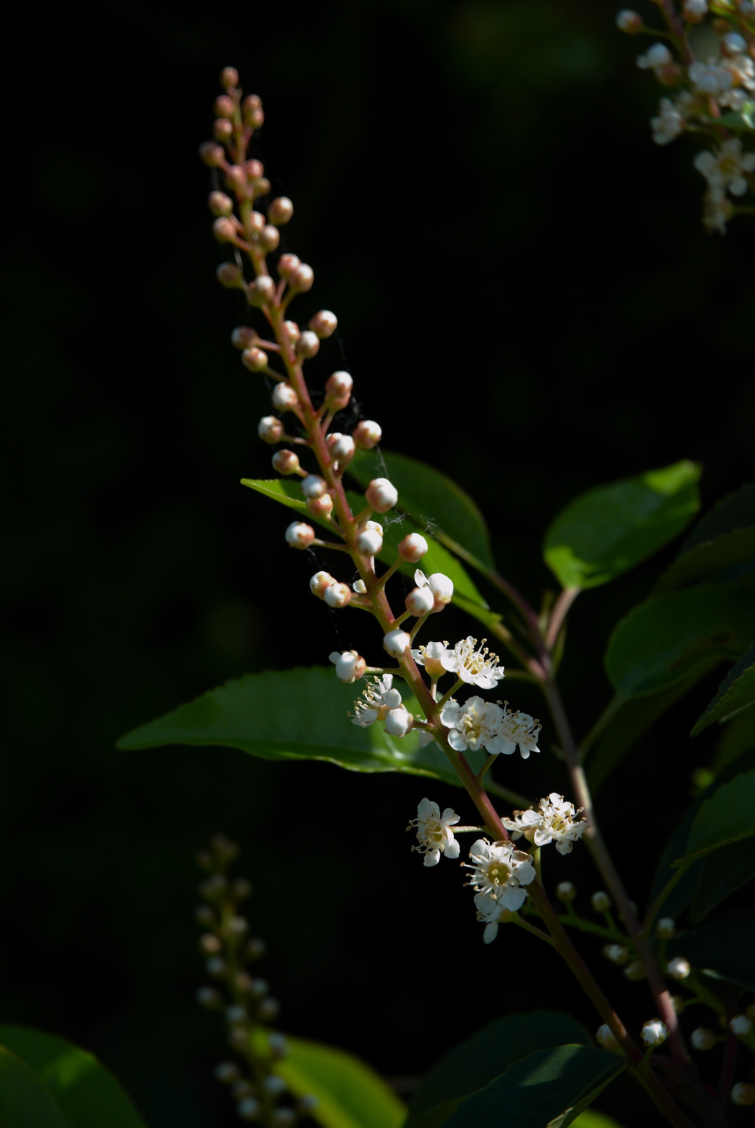 Portugal Laurel